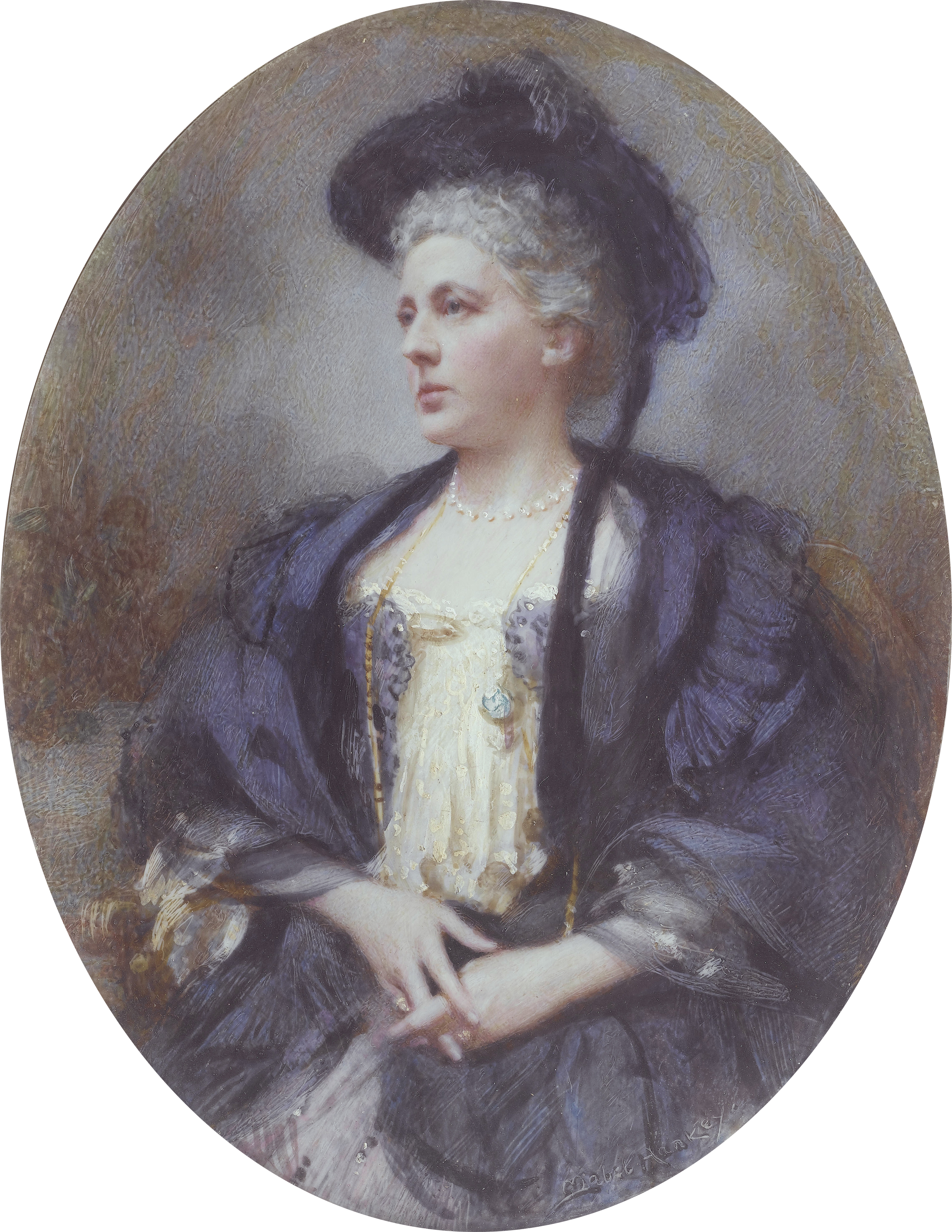 Lady Wimborne née Cornelia Henrietta Maria Spencer-Churchill OBE (1847-1927) March 1905 Signed b.: Mabel Hankey 137 mm high